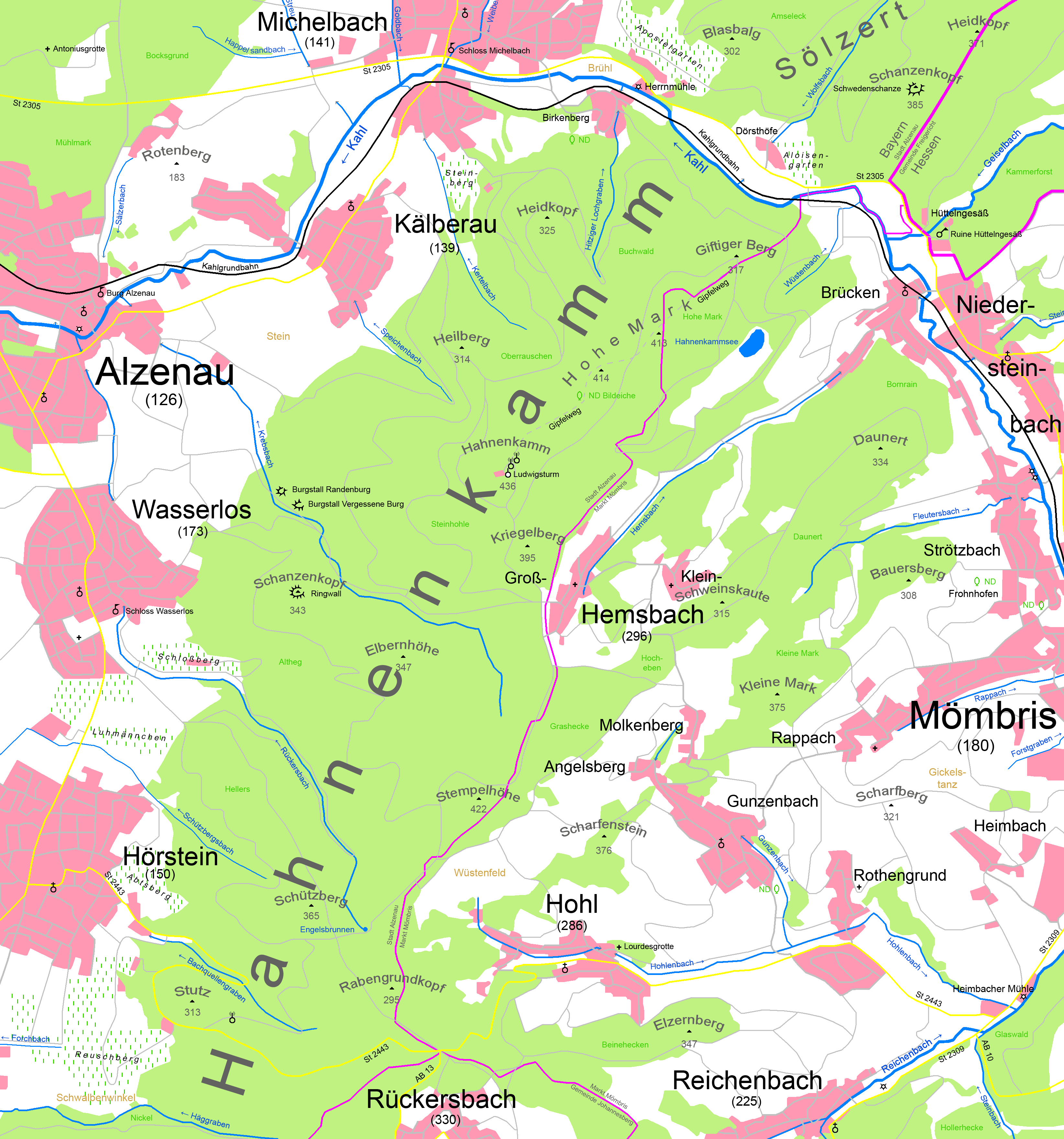 Map of the Hahnenkamm on the western edge of the Spessart in Bavaria Settlement area Forest Grassland, Meadow Body of water Vineyard Ruin Church Chapel, Grotto Radio mast Observation tower Watermill Main street Side street Agricultural road and Forest road Railway State border Mountain 435 Above sea level Fink Field name Natural monument Circular rampart, castle site